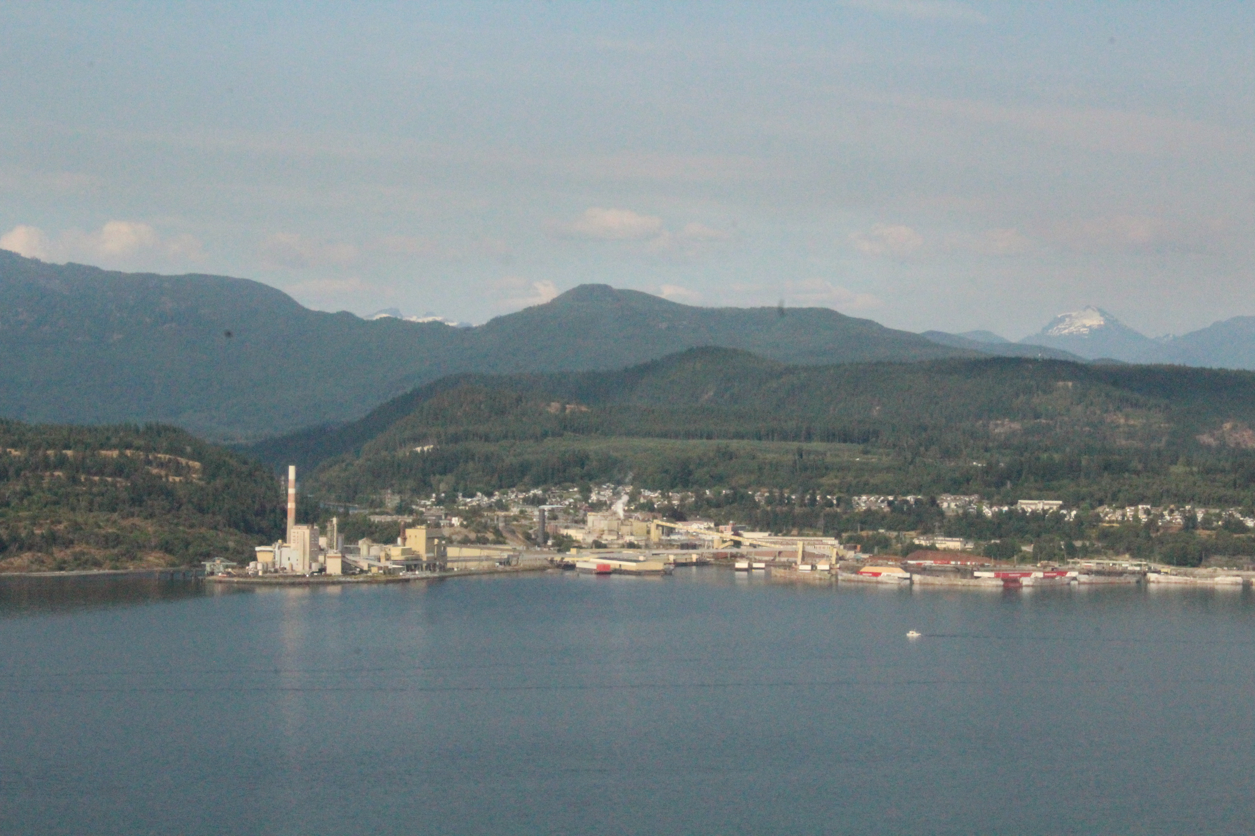 Powell River, British Columbia, from a seaplane